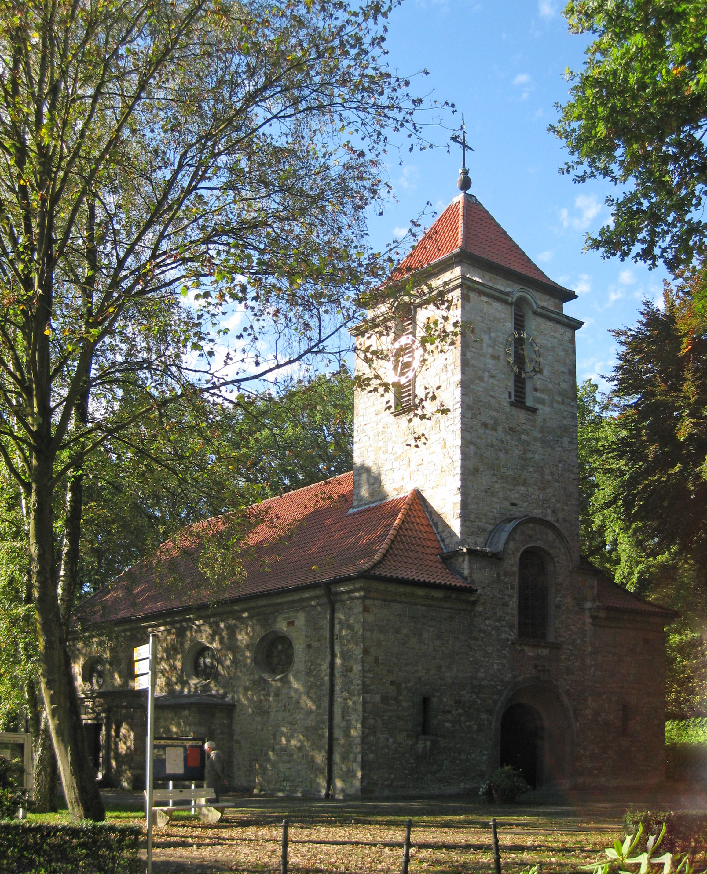 roman-catholic parish church St. Josef in Lippstadt-Bad Waldliesborn, built 1929-1930